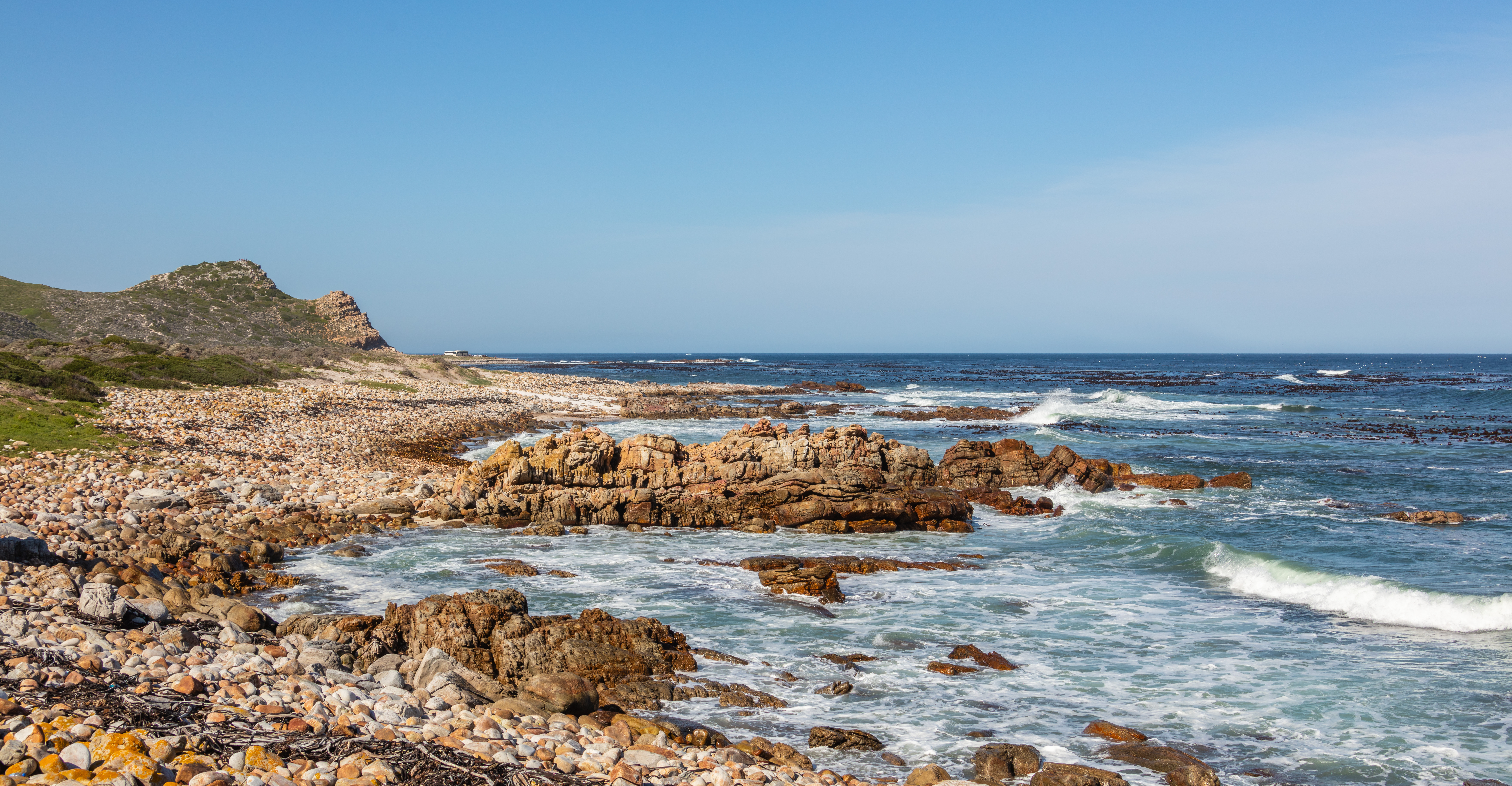 Cape of Good Hope, South Africa